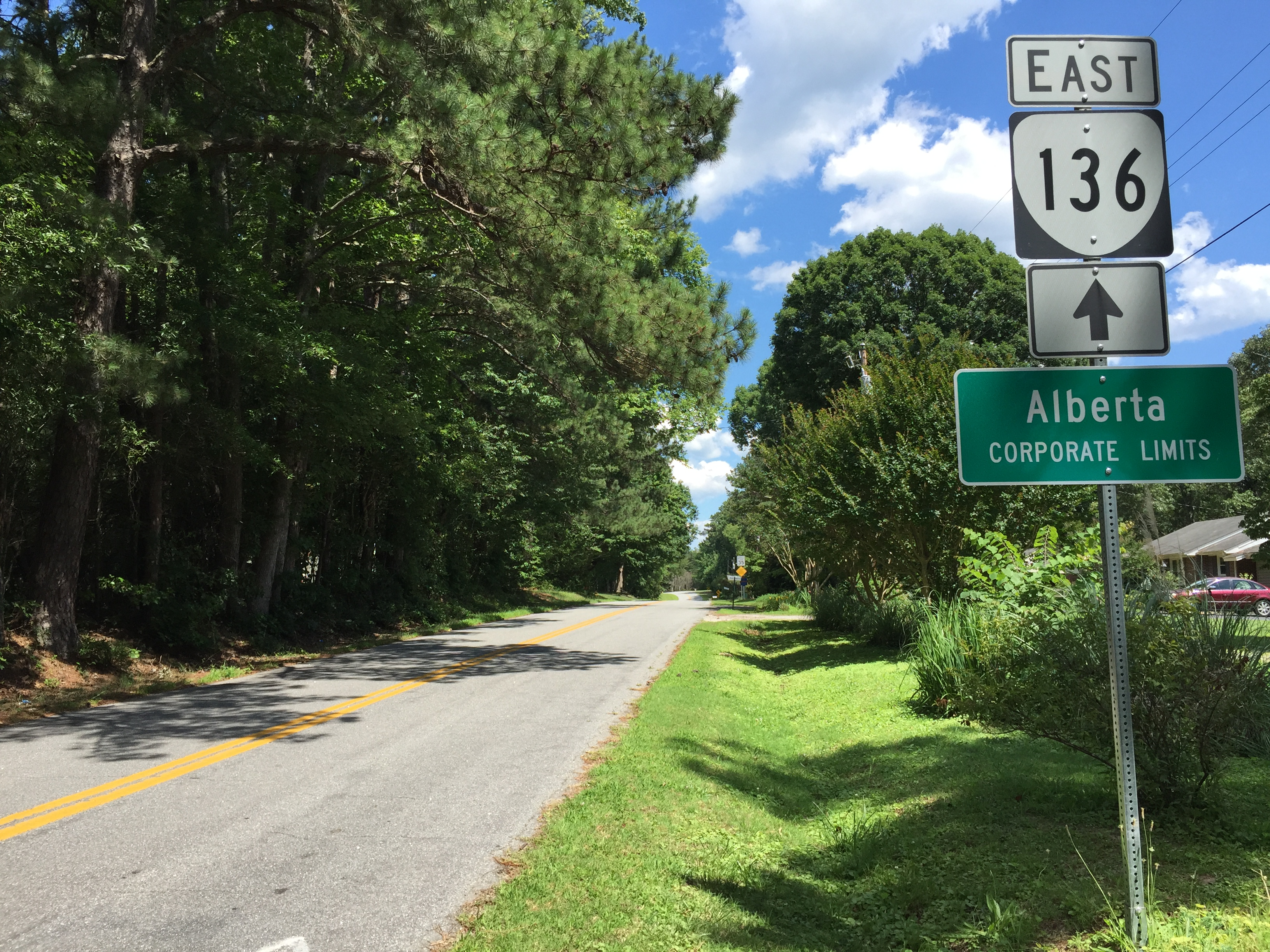 View east along Virginia State Route 136 (School Street) west of 3rd Avenue in Alberta, Brunswick County, Virginia